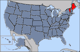 USA elections - results by state 1936